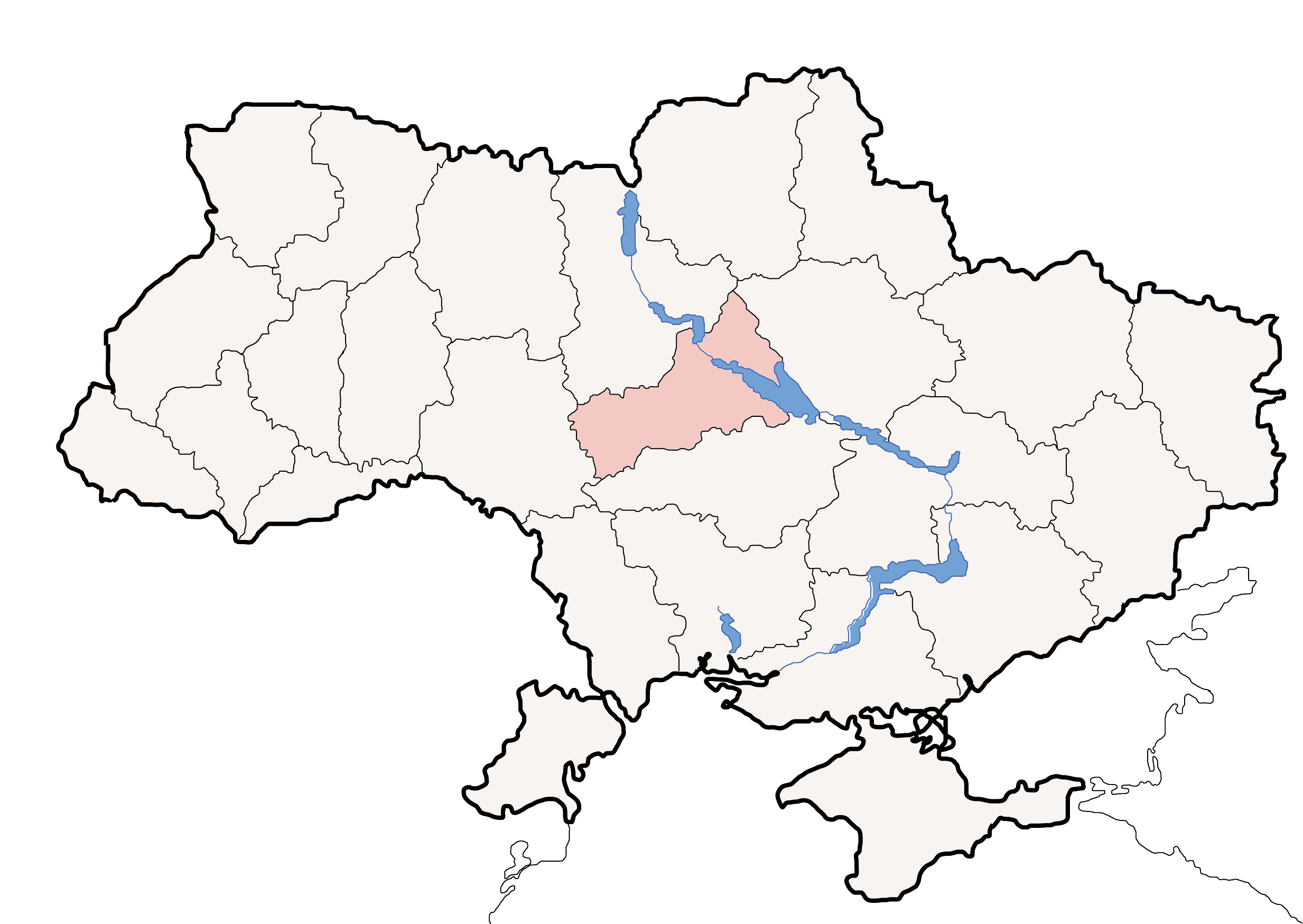 Political map of Ukraine, highlighting Cherkasy Oblast.